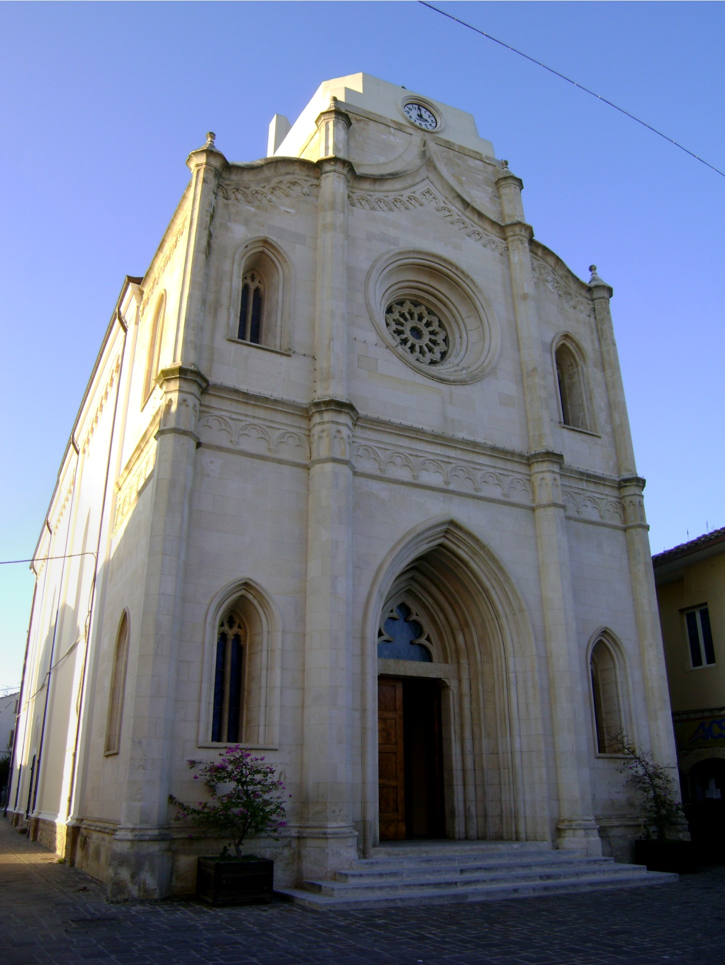 The church of Santa Maria Assunta, Sant'Eusanio del Sangro, Province of Chieti, Abruzzo